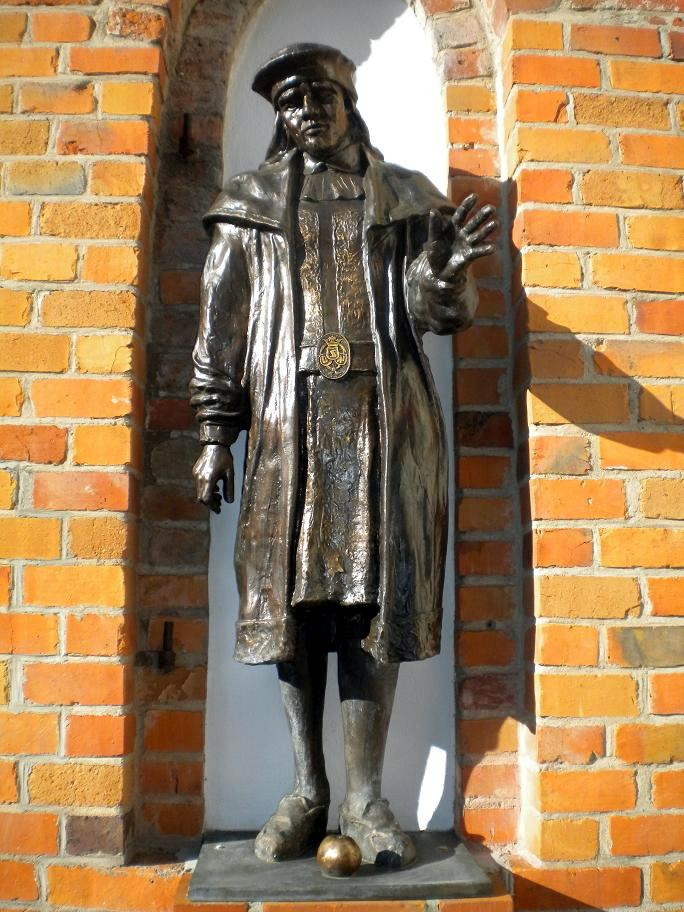 Statue of King Eric the Pomeranian of Scandinavia at Darłowo Castle, as released by image creator Ristesson;Place: Darłowo, Poland